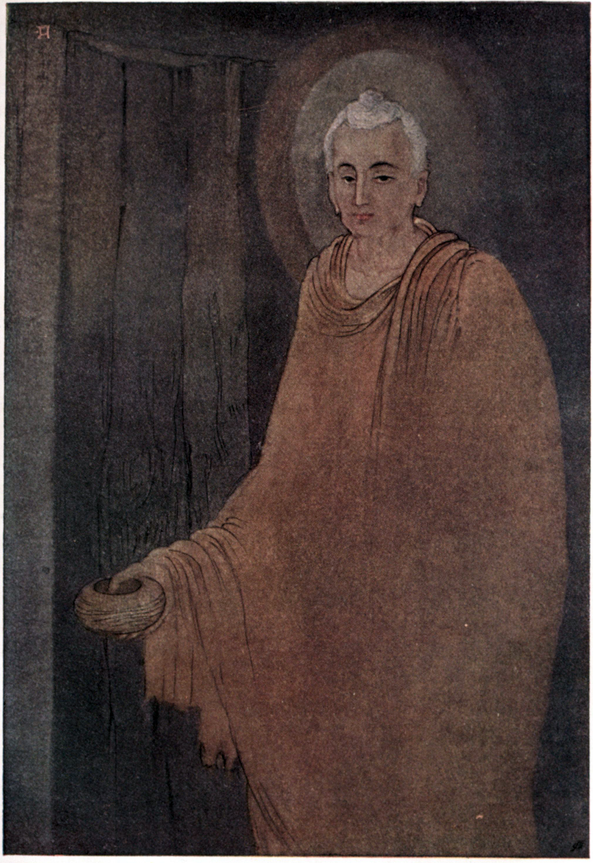 Myths of the Hindus & Buddhists (1914) Author: Nivedita, Sister, 1867-1911; Coomaraswamy, Ananda Kentish, 1877-1947 Subject: Mythology, Hindu; Mythology, Indic; Buddha and Buddhism Publisher: London Harrap Possible copyright status: NOT_IN_COPYRIGHT Language: English Call number: AAV-0085 Digitizing sponsor: MSN Book contributor: Robarts - University of Toronto Collection: robarts; toronto Full catalog record: MARCXML [Open Library icon]This book has an editable web page on Open Library. Be the first to write a review Downloaded 855 times Reviews Selected metadata Identifier: mythsofthehindus00niveuoft Copyright-evidence-operator: University of Toronto scanning center Copyright-region: US Copyright-evidence: Evidence reported by University of Toronto scanning center for item mythsofthehindus00niveuoft on May 12, 2006; no visible notice of copyright and date found; stated date is 1914; not published by the US government; Have not checked for notice of renewal in the Copyright renewal records. Copyright-evidence-date: 2006-05-12 20:39:44 Scanningcenter: UofT Operator: scanner-joanna-woodcock Mediatype: texts Scanner: uoft3 Scandate: 20060517130853 Imagecount: 518 Sponsordate: 20060531 Filesxml: Thu Mar 18 6:17:31 UTC 2010 Ppi: 500 Identifier-access: Identifier-ark: ark:/13960/t50g4p70x